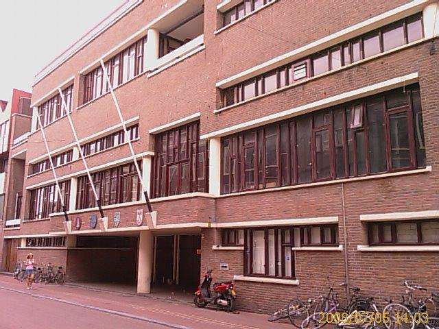 Society Building "Minerva" of student association LSV Minerva, situated on 50 Breestraat in Leiden, The Netherlands.